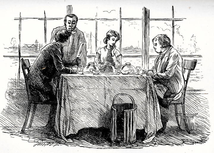 John Rokesmith and Bella enjoying their wedding dinner with Bella's father